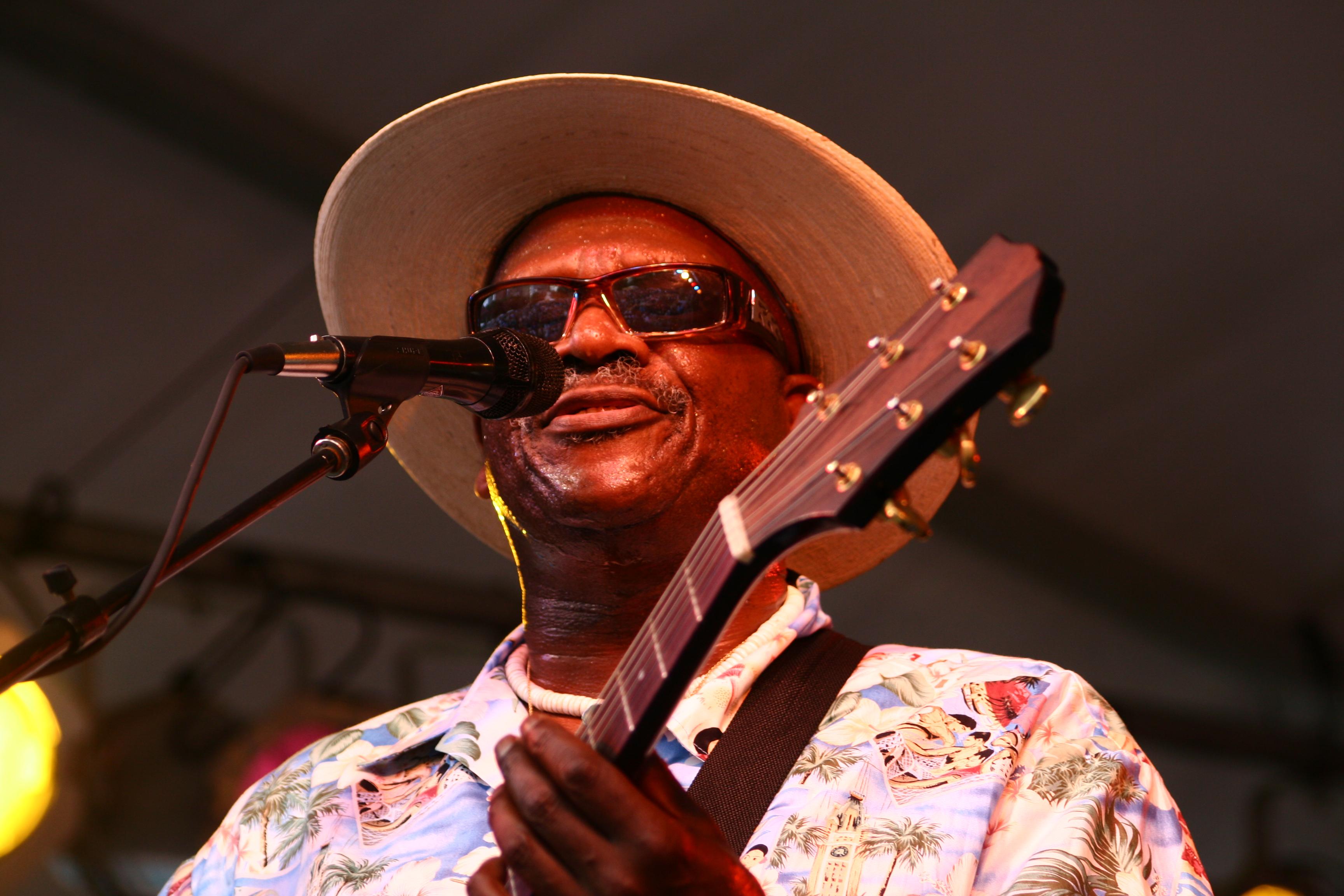 Taj Mahal at Houston International Festival 2008